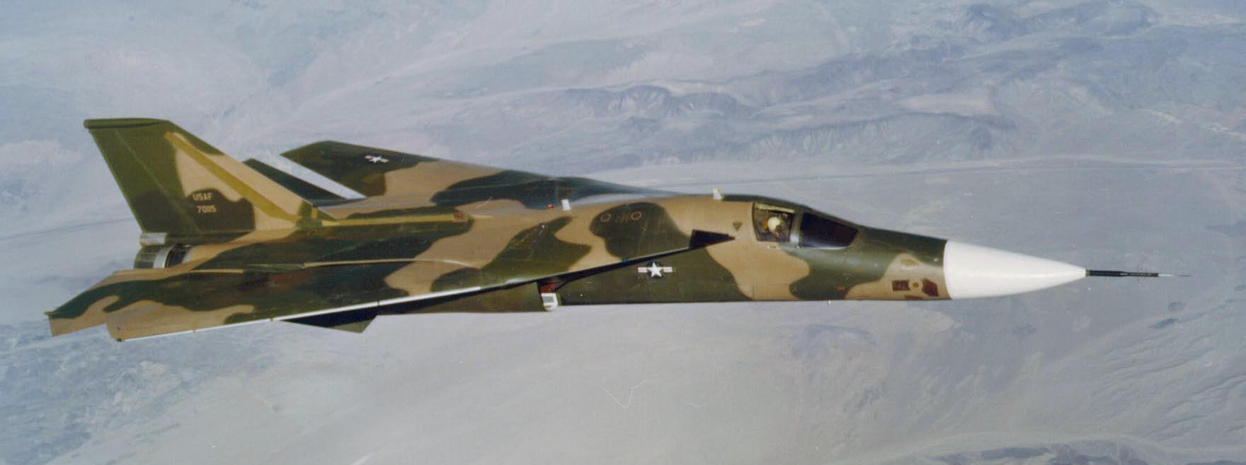 F-111 in USAF use